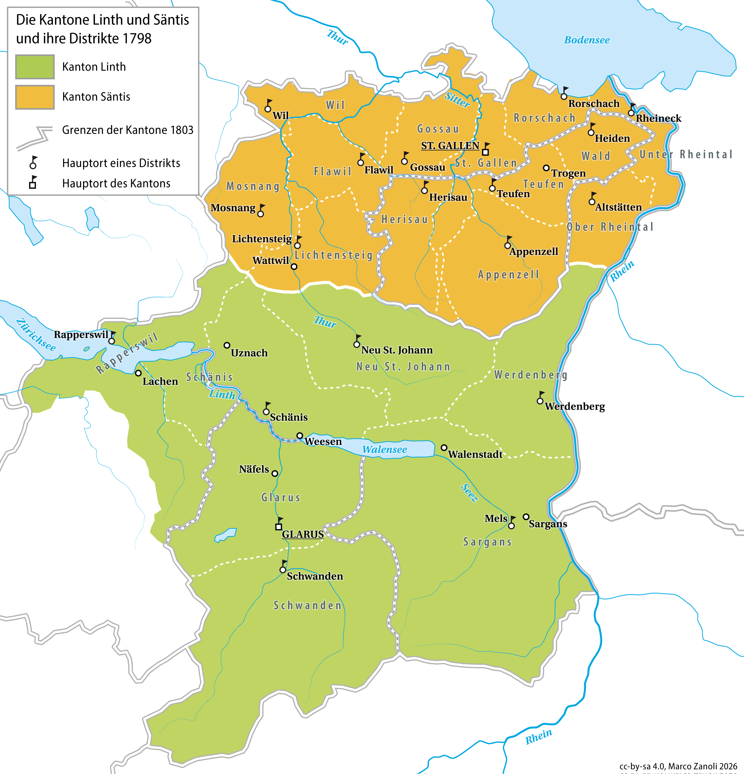 The Swiss Cantons Linth and Säntis during the Helvetic Republic 1798–1803